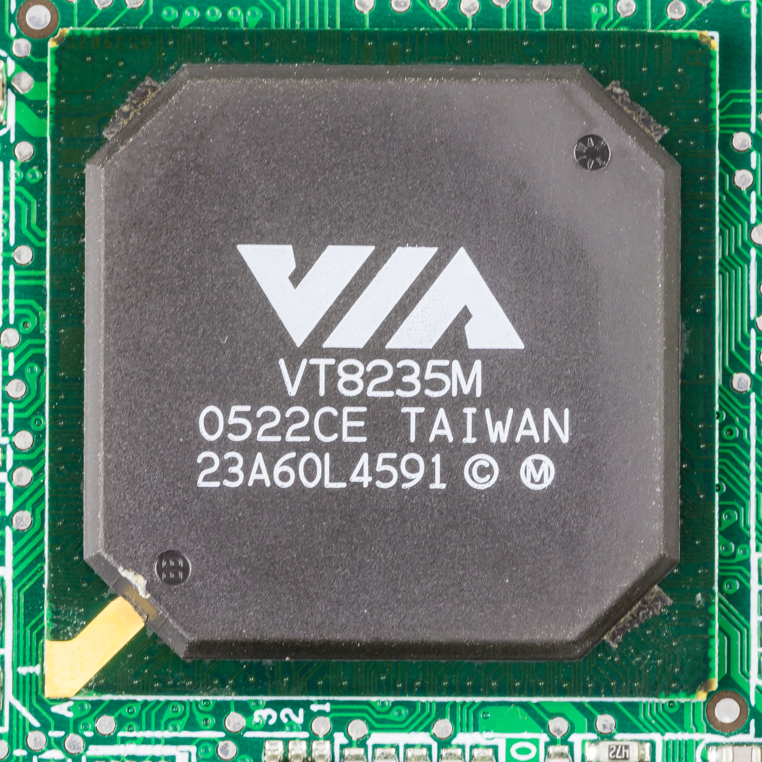 Yakumo Notebook 536S - VIA VT8235M (Version CD) - South Bridge